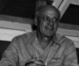 A photo of the Guam Island Court from the May 1, 1947 showing Governor Charles Alan Pownall. Crop of File:Guam Island Court 1947.jpg